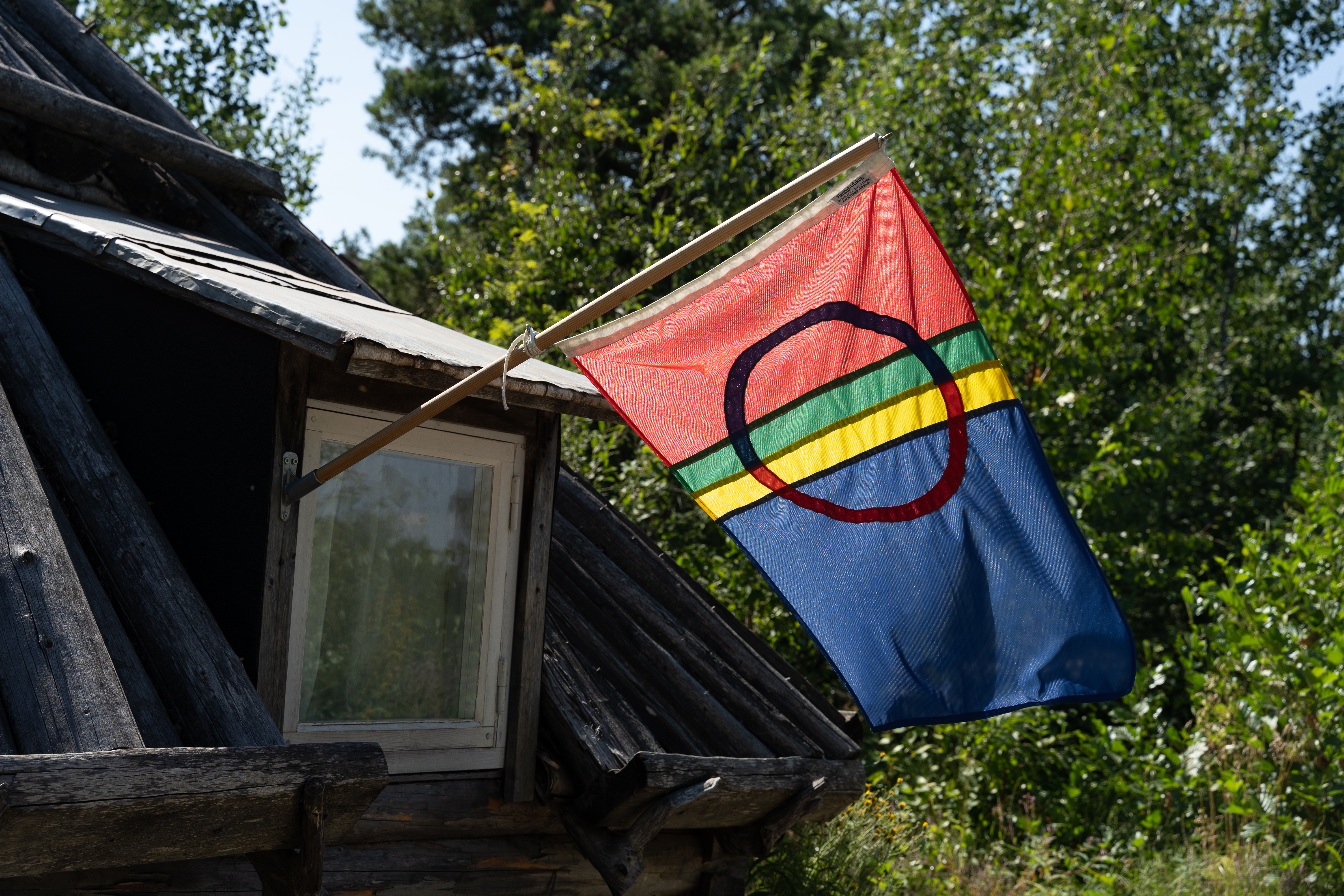 Images from Skansen by Stockholm. See my profile for image use.